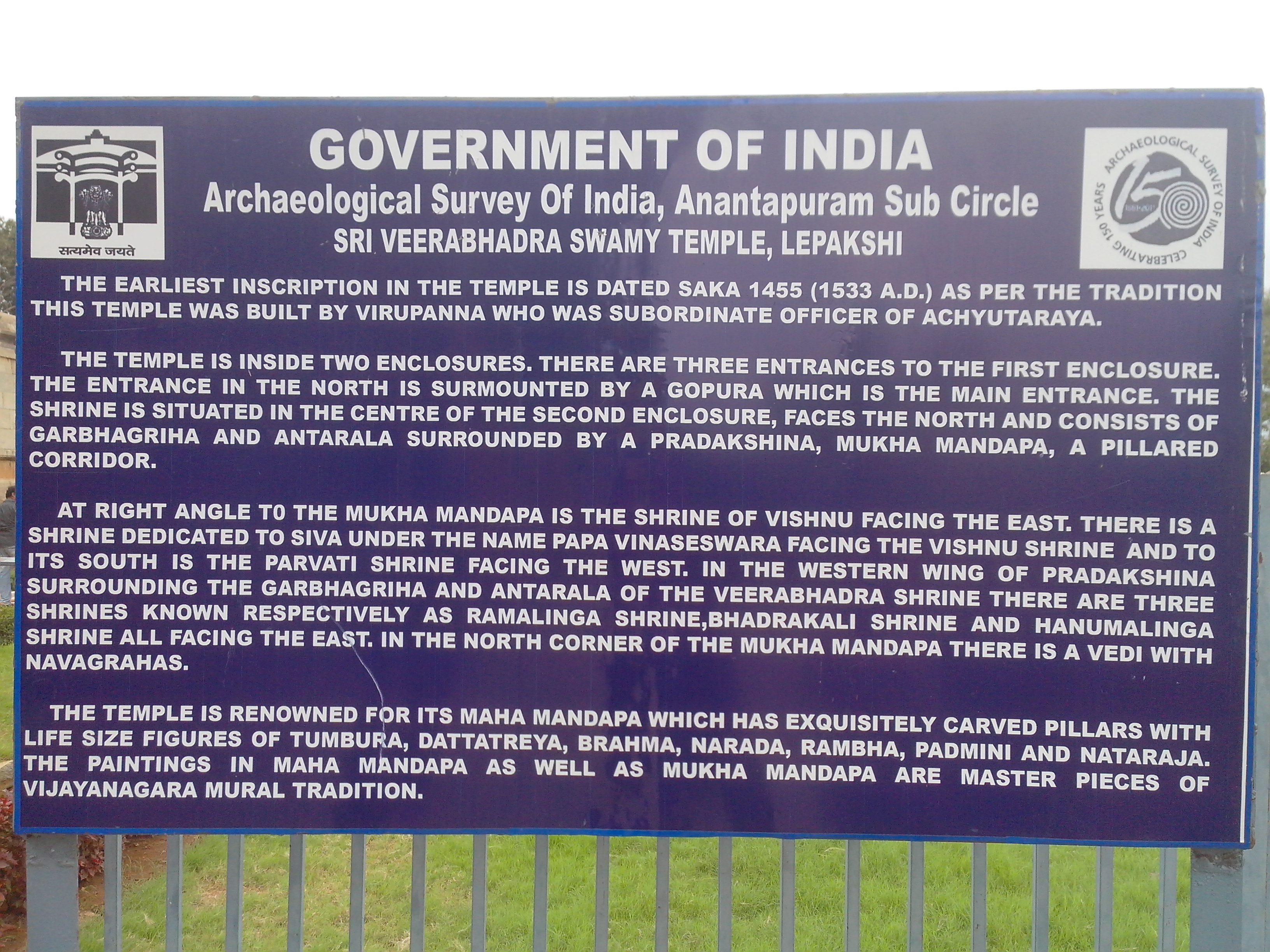 Lepakshi, a small village in the Anantapur District, in Andhra Pradesh, India. The image is about the Government of India's Archaeological Survey of India Information Notice displayed at the Lepakshi site.